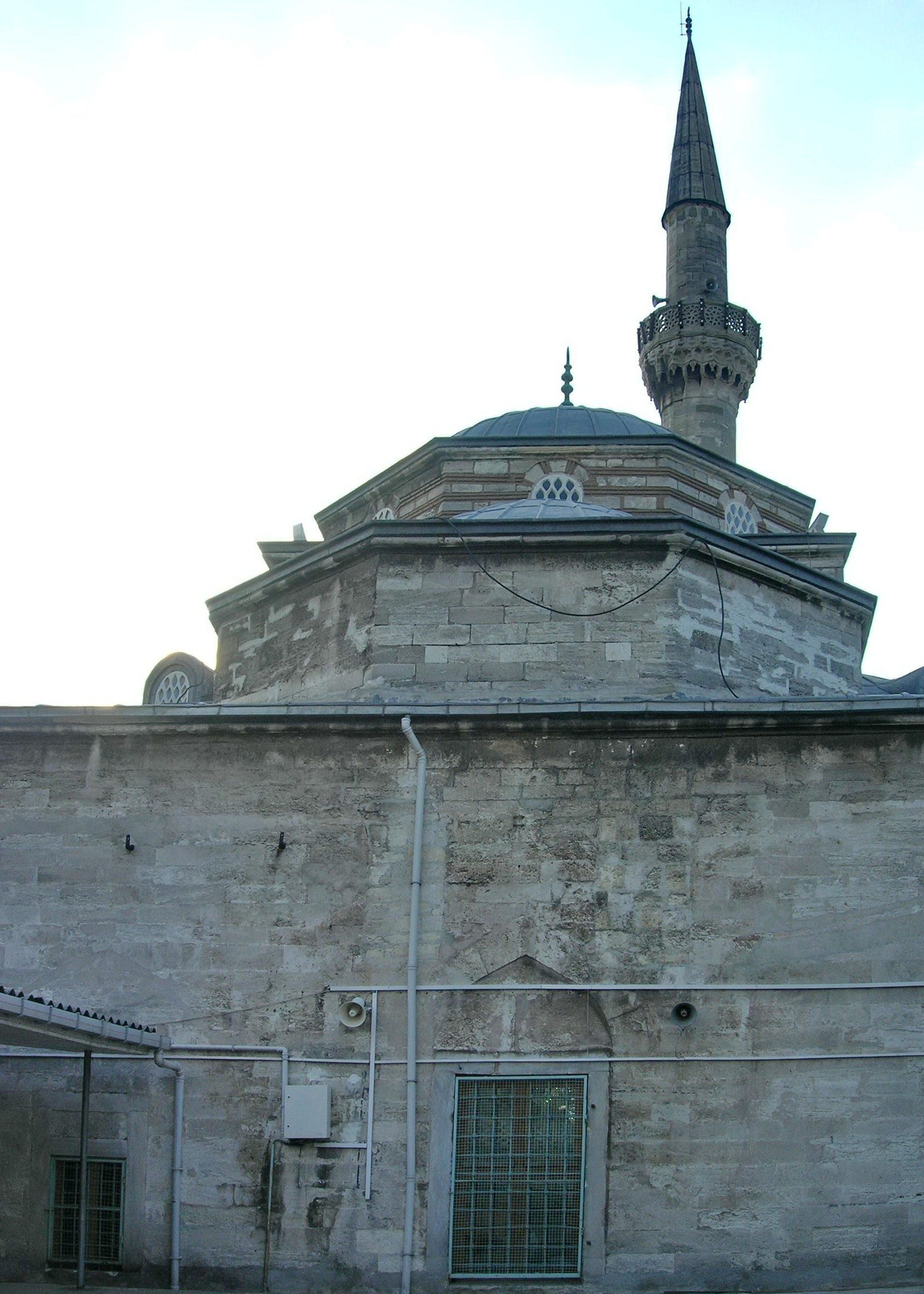 The former Church of the monastery of Hagios Andreas en te Krisei (today mosque of Koca Mustafa Pasha) in Istanbul, seen from NE.